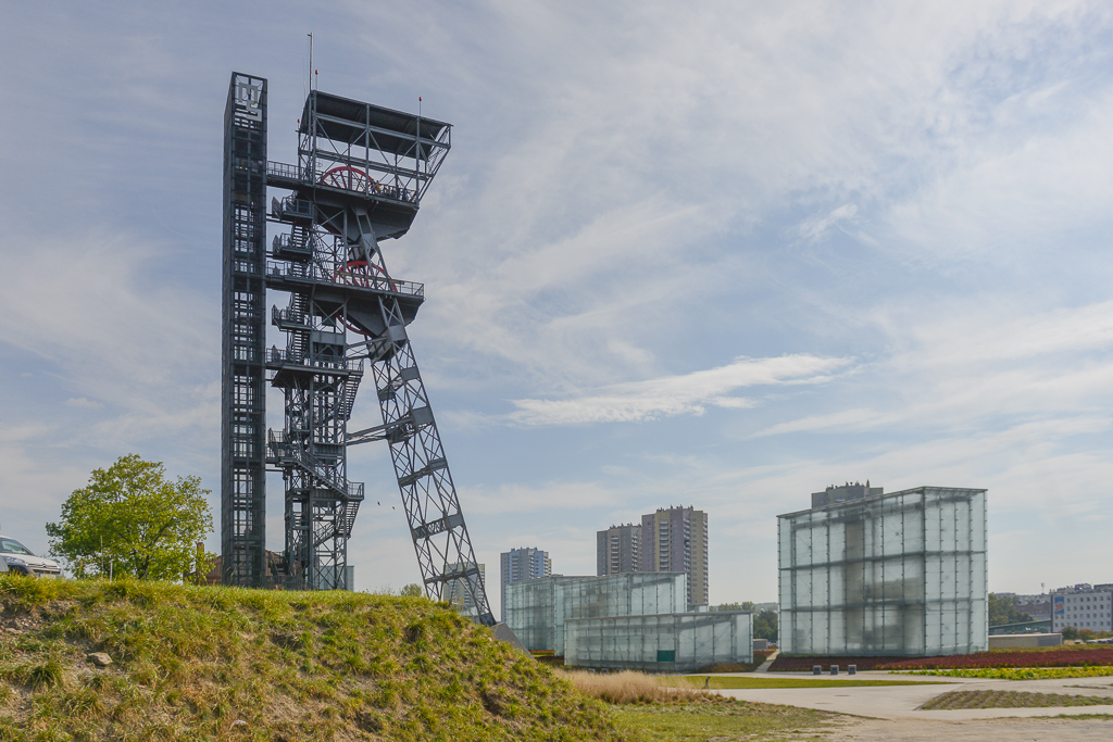 Silesian Museum in Katowice. Photography of observation tower and museum buildings.